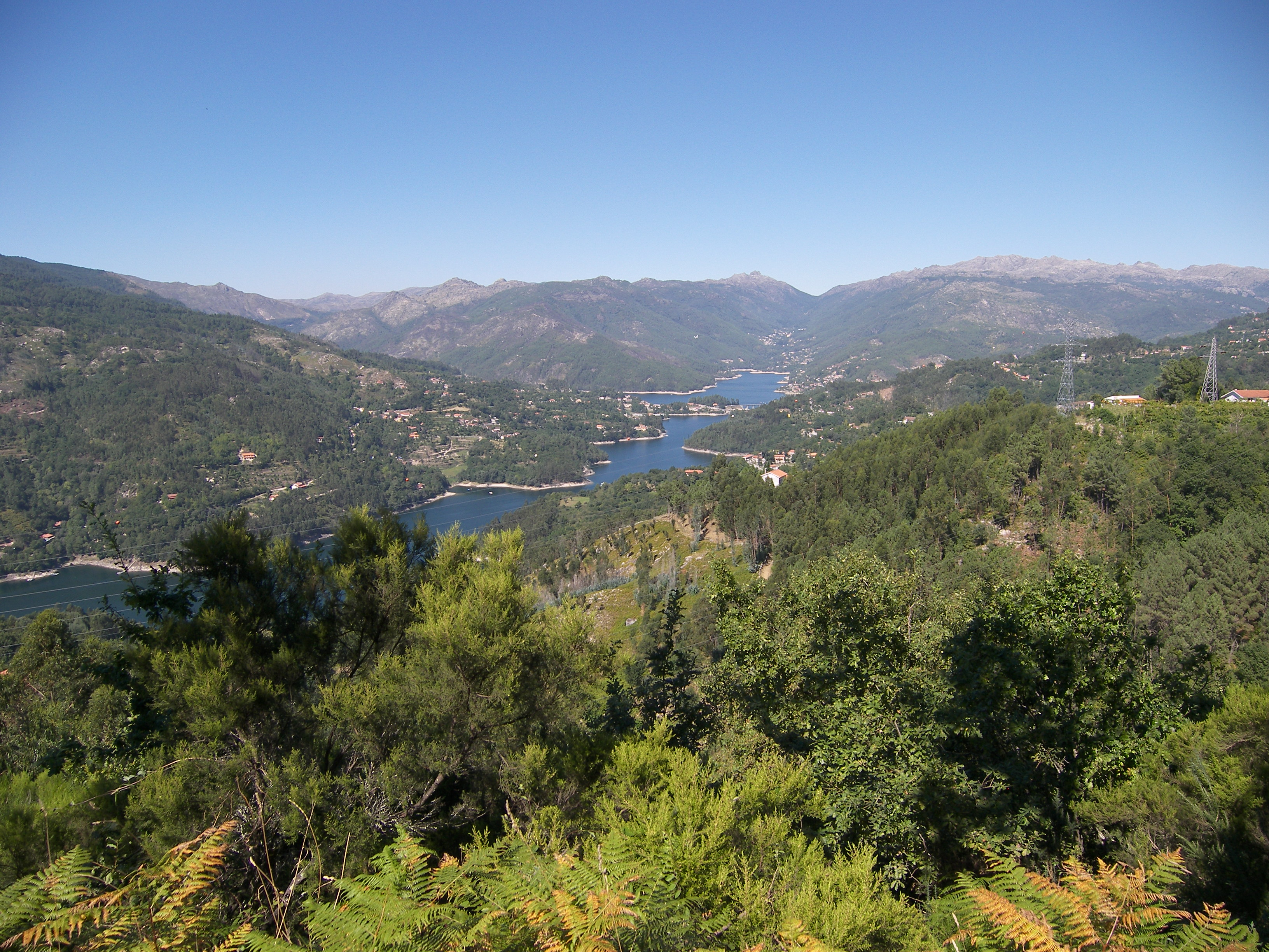 Lake Caniçada-along the Cavado valley.